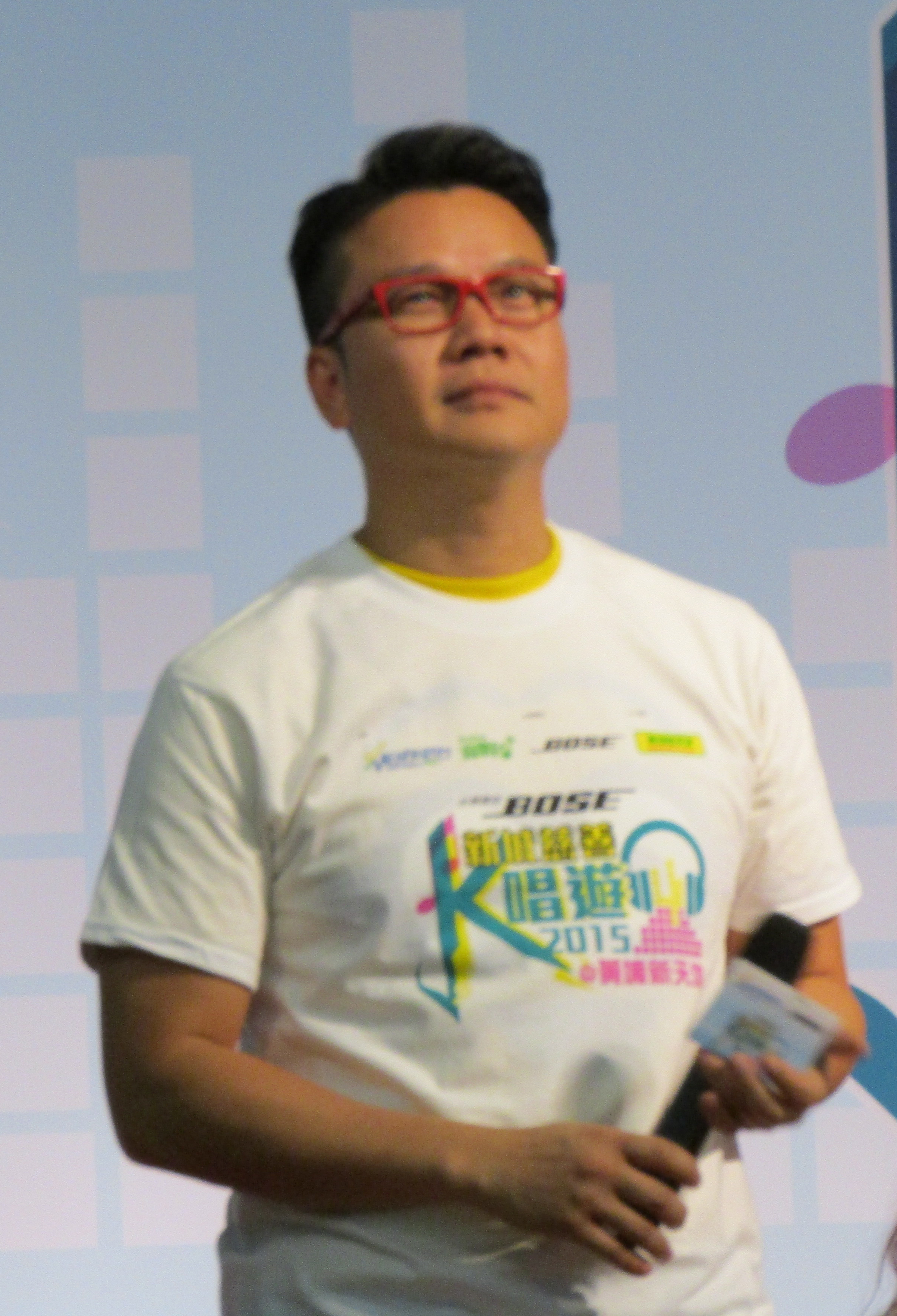 Hon Yeung is singing at Wonderful Worlds of Whampoa, Hung Hom